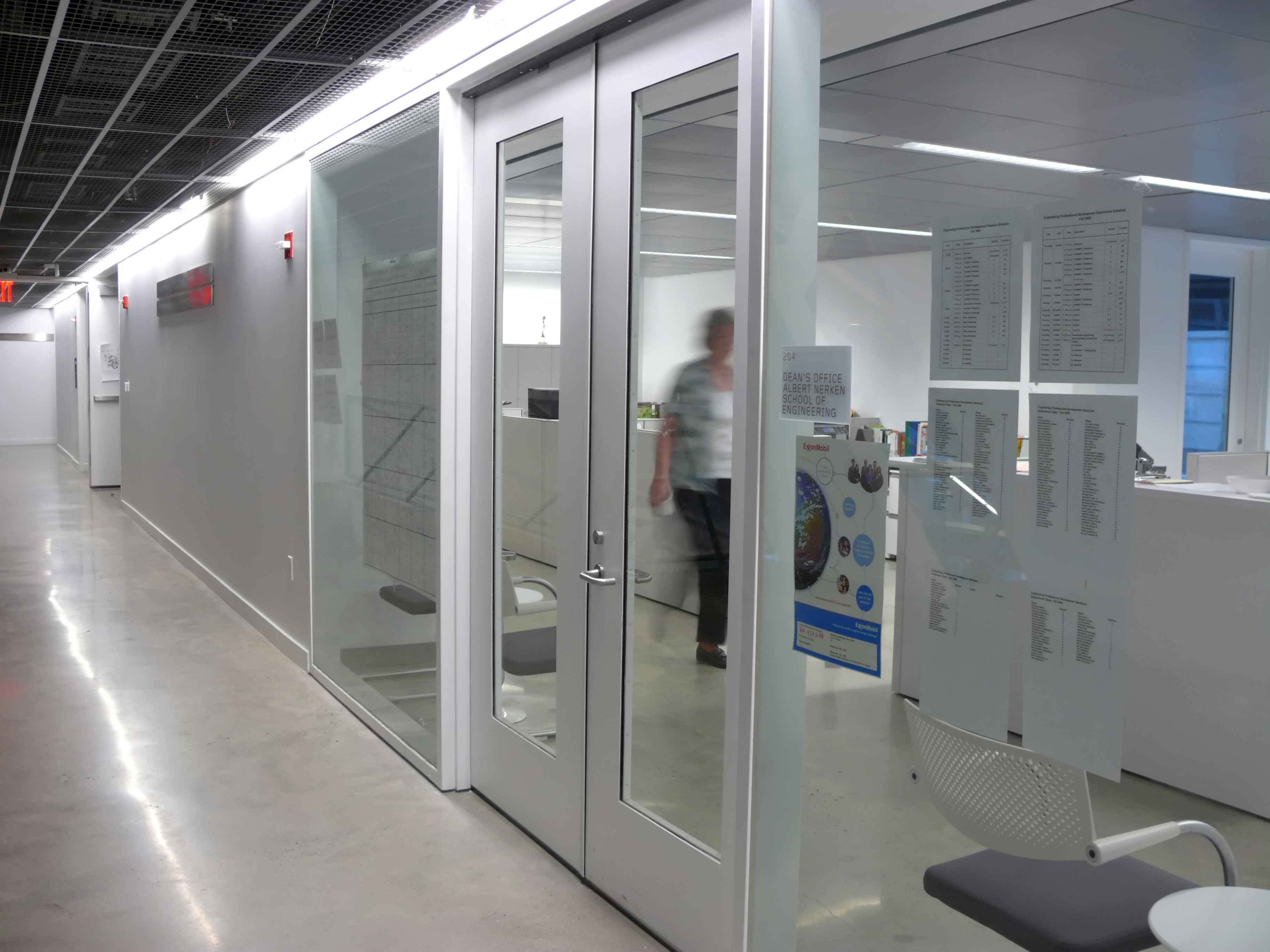 Photo of the Cooper Union School of Engineering main office, located on the second floor of the New Academic Building.